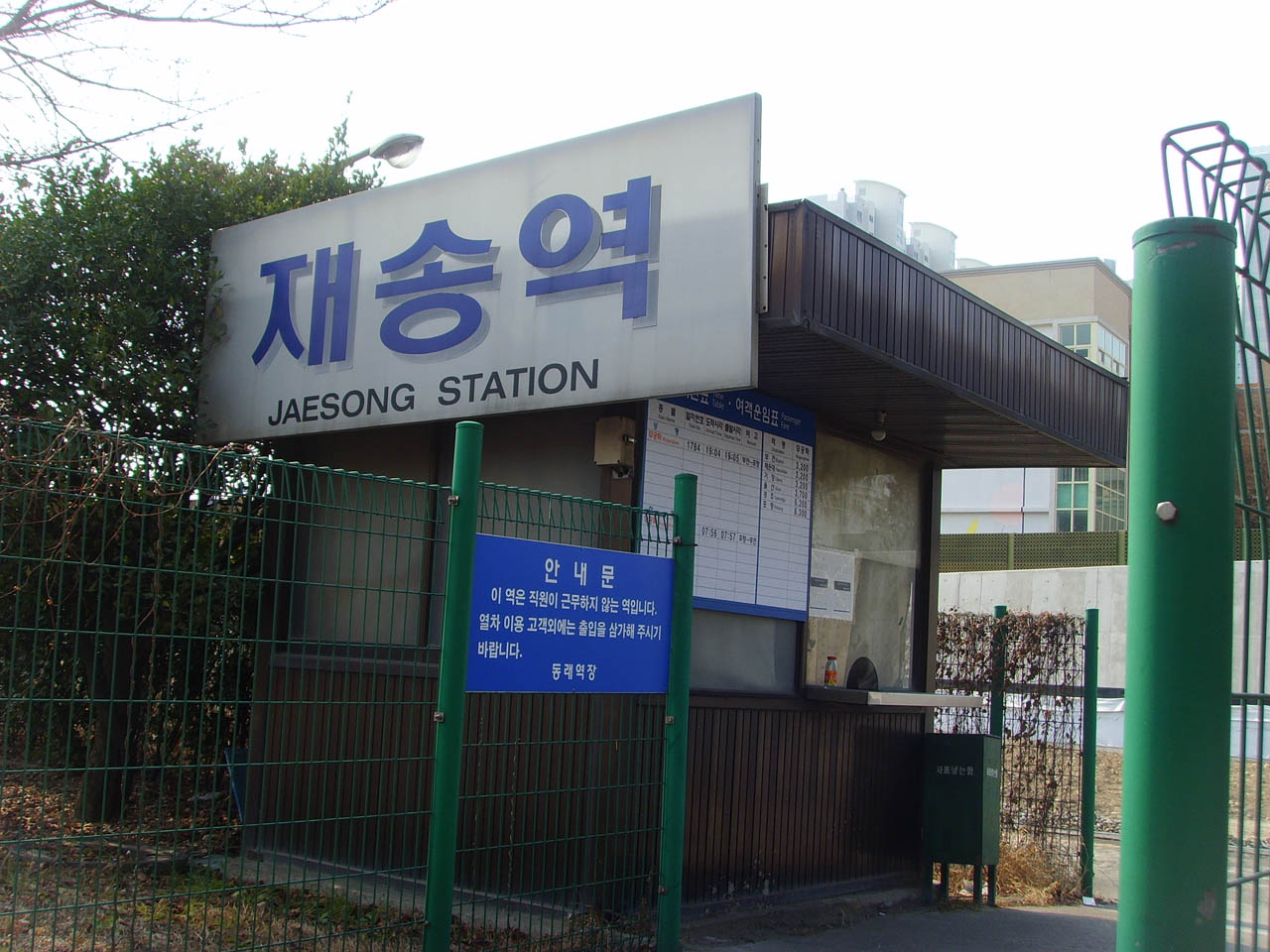 Donghaenambu Line Jaesong Station.jpg